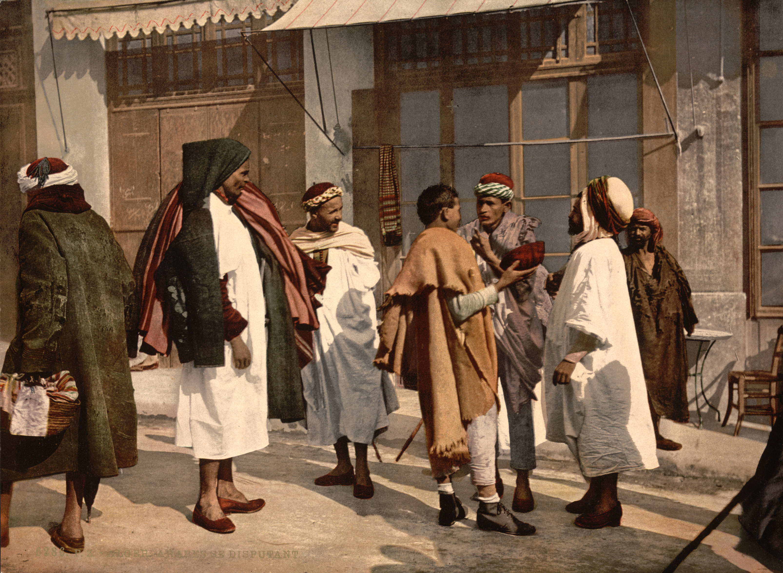 Algerian Arabs disputing, Algiers, Algeria,1899